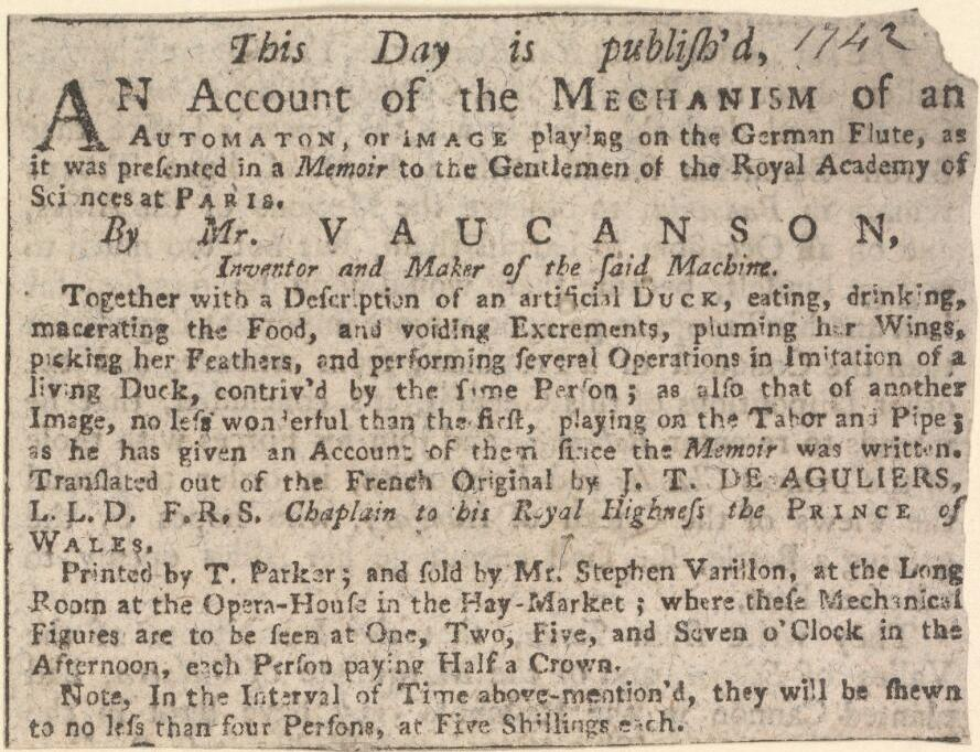 Newscutting relating to the Long Room, 1742, announcing An automaton playing a german flute, etc.; 1742 (manuscript); Automaton playing a german flute; Artificial duck; Another image, playing on the tabor and pipe; Account of the mechanism of an automaton; This day is publish'd, an account of the mechanism of an automaton, or image playing on the German flute, as it was presented in a memoir to the gentlemen of the Royal Academy of Sciences at Paris by Mr. Vaucanson